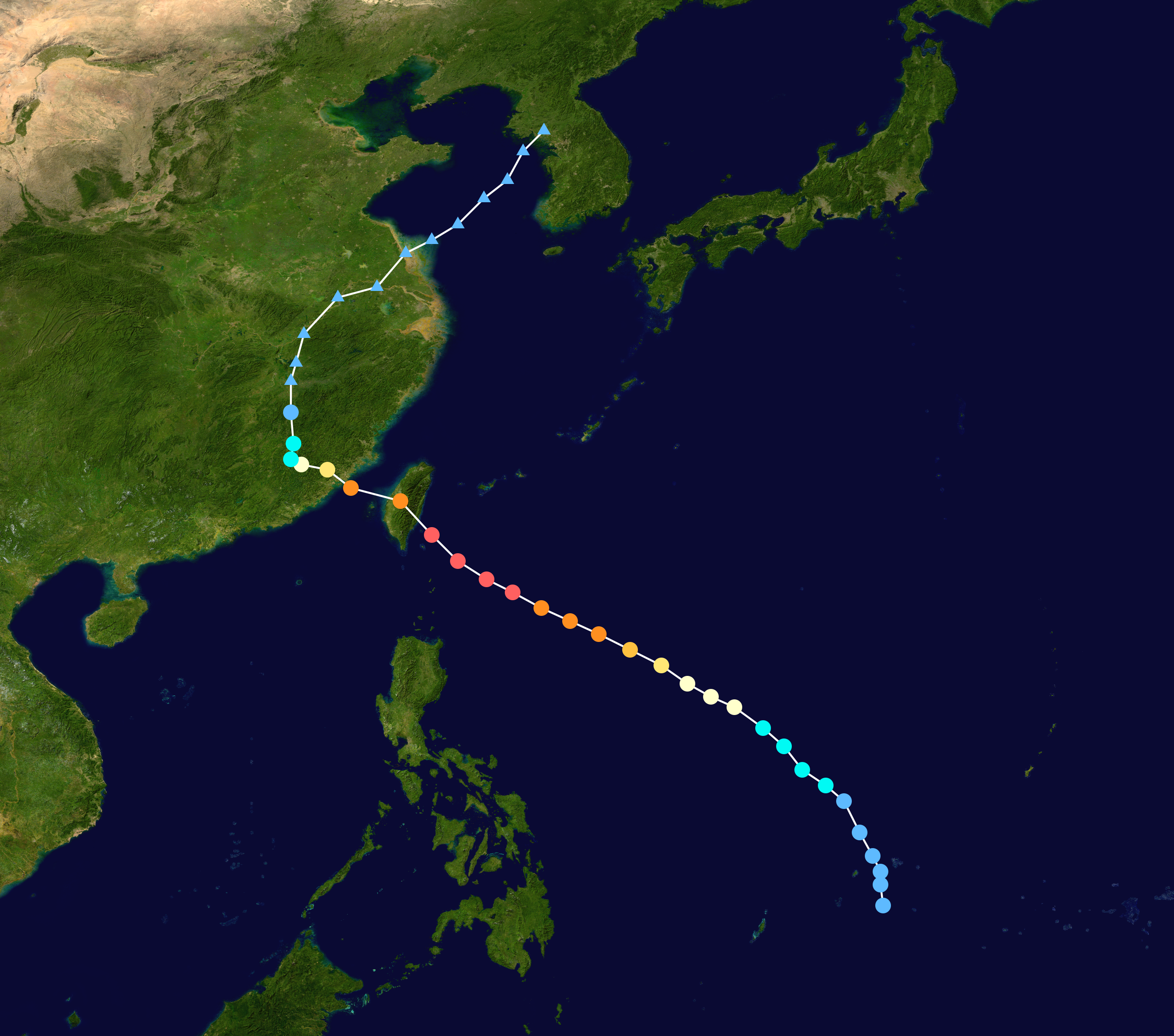 Track map of Typhoon Bilis of the 2000 Pacific typhoon season. The points show the location of the storm at 6-hour intervals. The colour represents the storm's maximum sustained wind speeds as classified in the Saffir–Simpson scale (see below), and the shape of the data points represent the nature of the storm, according to the legend below. Saffir–Simpson scale Tropical depression≤38 mph≤62 km/h Category 3111–129 mph178–208 km/h Tropical storm39–73 mph63–118 km/h Category 4130–156 mph209–251 km/h Category 174–95 mph119–153 km/h Category 5≥157 mph≥252 km/h Category 296–110 mph154–177 km/h Unknown Storm type Tropical cyclone Subtropical cyclone Extratropical cyclone / Remnant low / Tropical disturbance / Monsoon depression